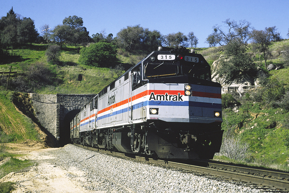 March 1995 Amtrak #315 exits tunnel #17 west of Newcastle with train #6 the California Zephyr.